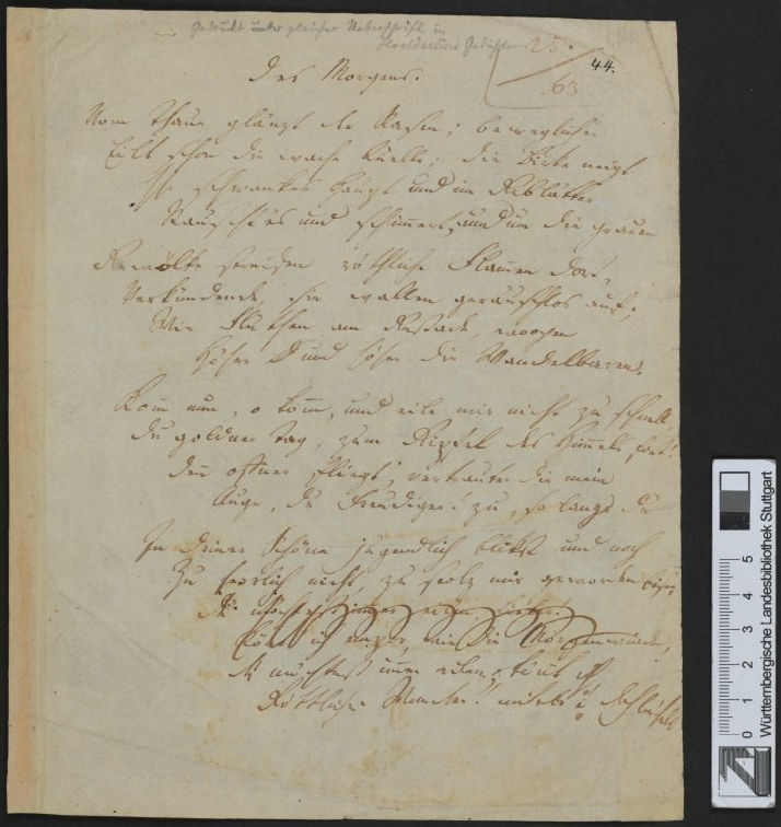 Manuscript by Friedrich Hölderlin: Des Morgens, page 1